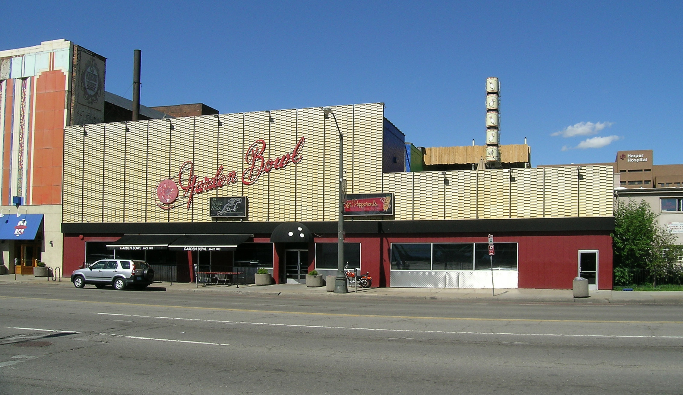 Garden Bowl, Detroit, Michigan, United States, is listed on the US National Register of Historic Places (NRHP).NRHP reference number 08000578